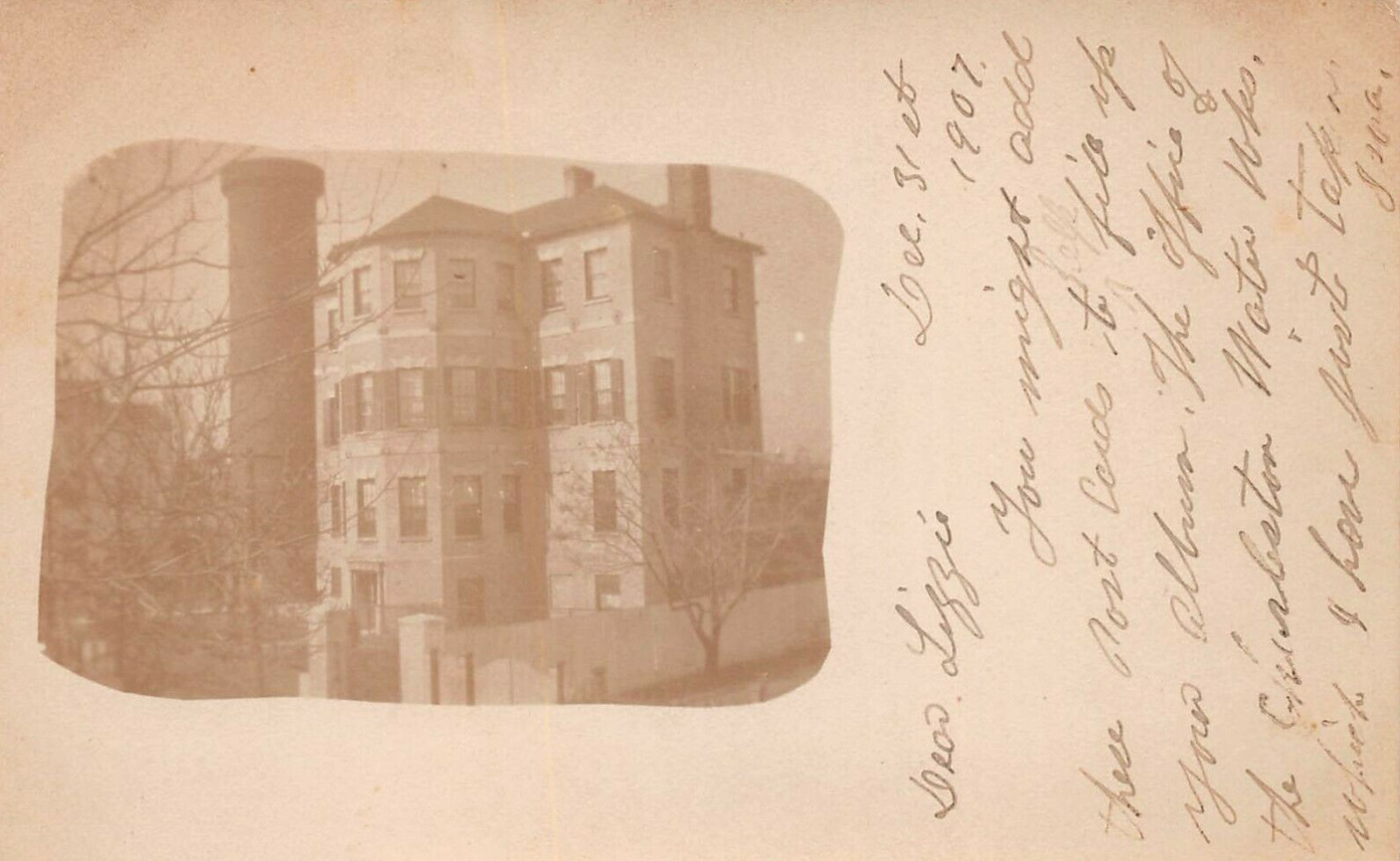 14 George Street, Charleston, South Carolina in 1907 served as the Charleston Water Works.